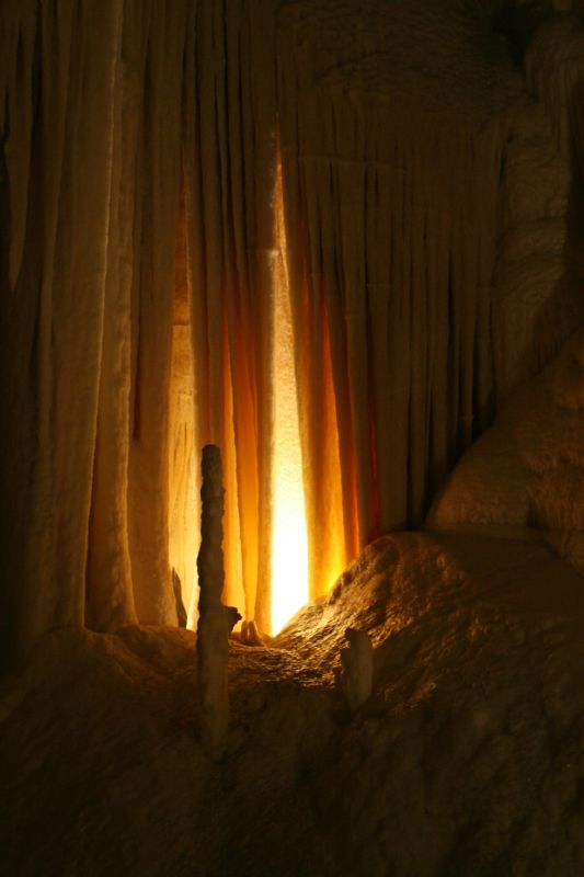 Genga, Marche, Italia